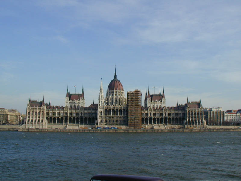 Parliament of Hungary